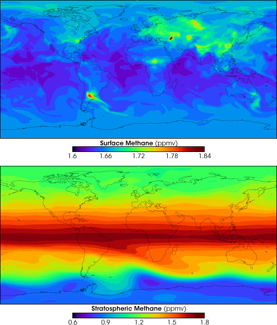 Two computer models showing the amount of methane found at the Earth's surface and in the stratosphere.